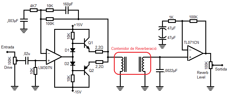 General purpose Reverb drive ad recovery circuit